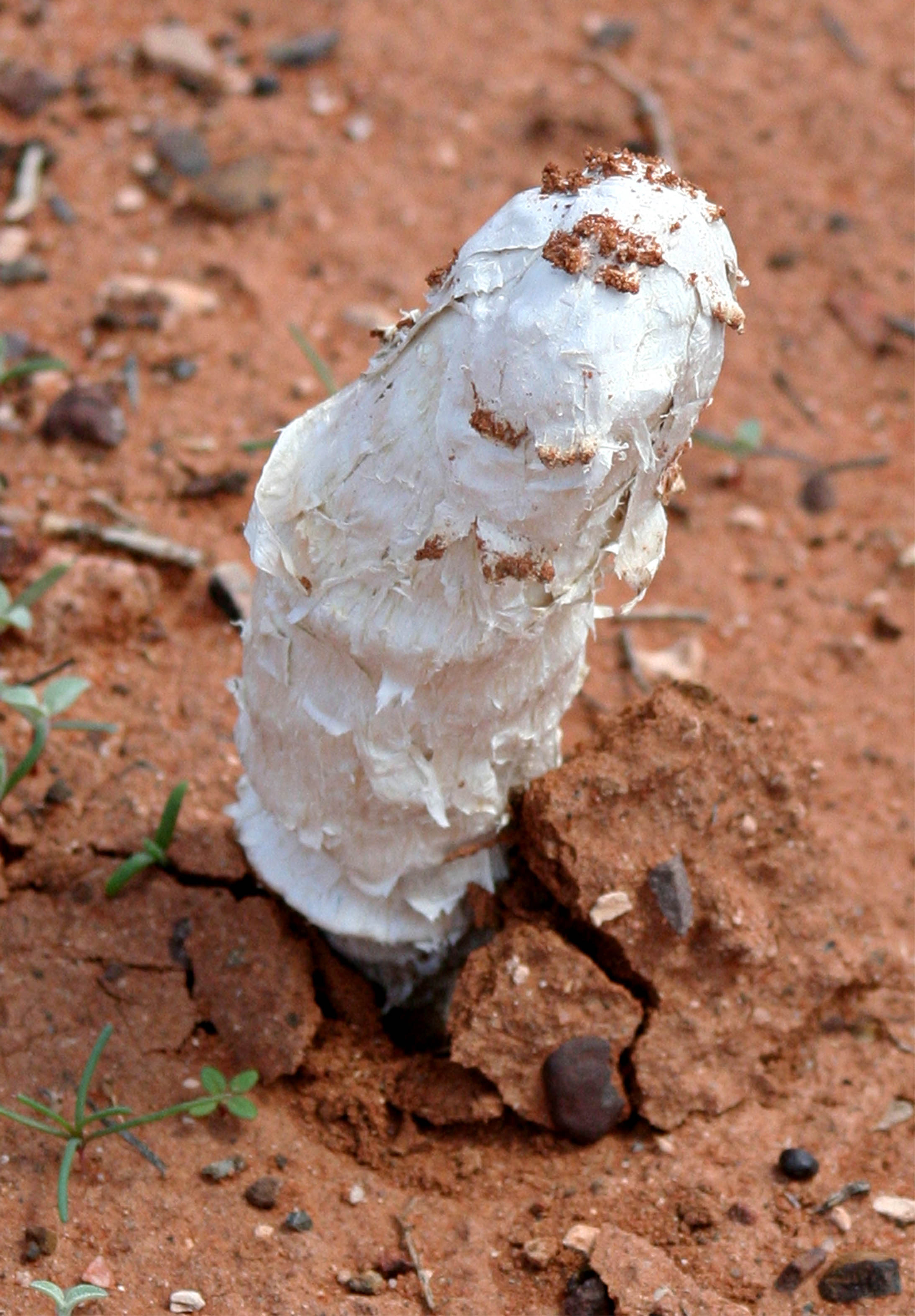 A fruit body of the puffball fungus Phellorinia herculanea. Photographed in Australia. Identified by Pam Catchside of the Adelaide Fungal Studies Group. Original photo (a composite of two photos) was halved by the uploader.